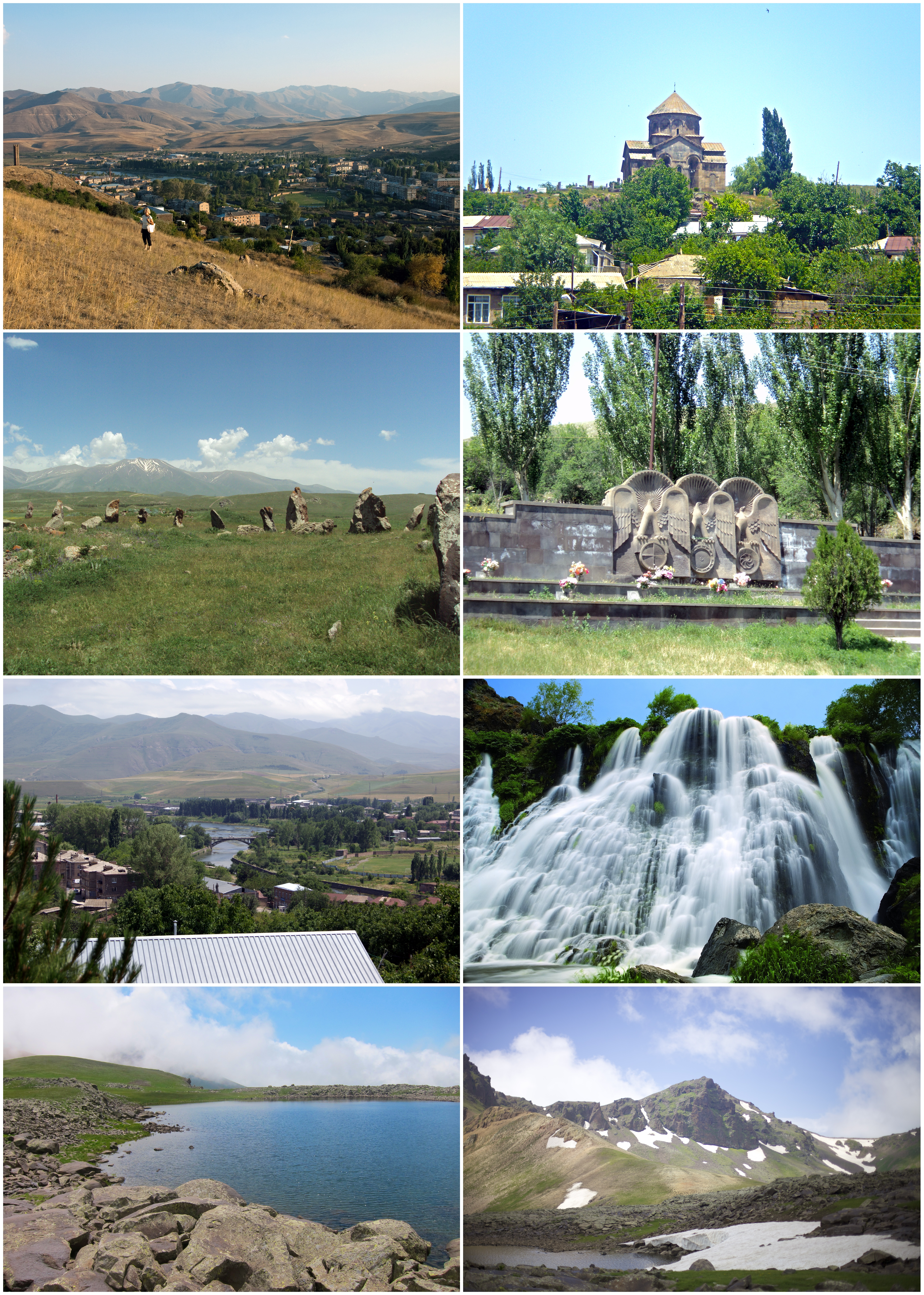 Sisian town collection, Armenia.